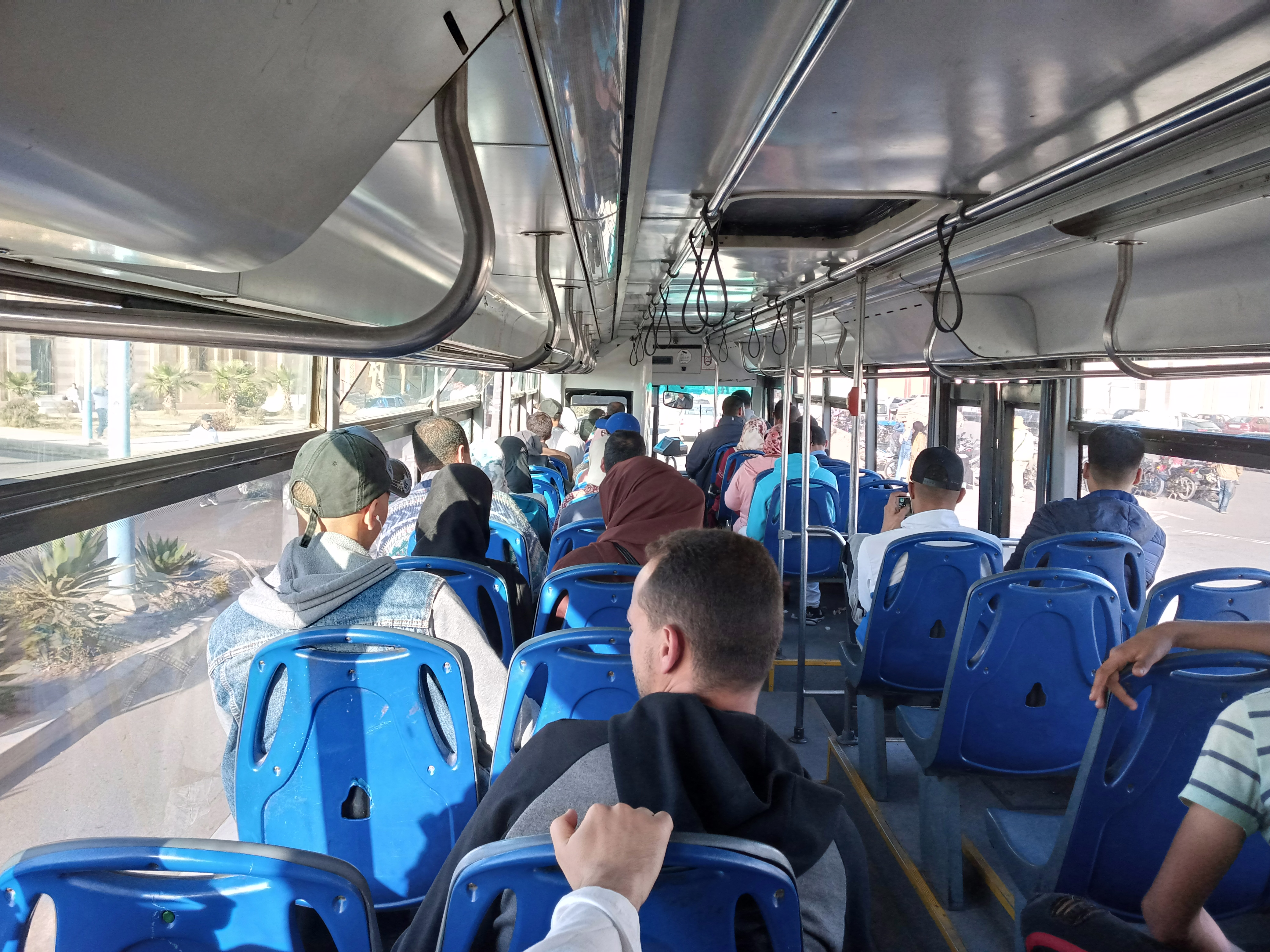 The inside of ALASA Agadir bus This is an image with the theme "Africa on the Move or Transport" from: Morocco